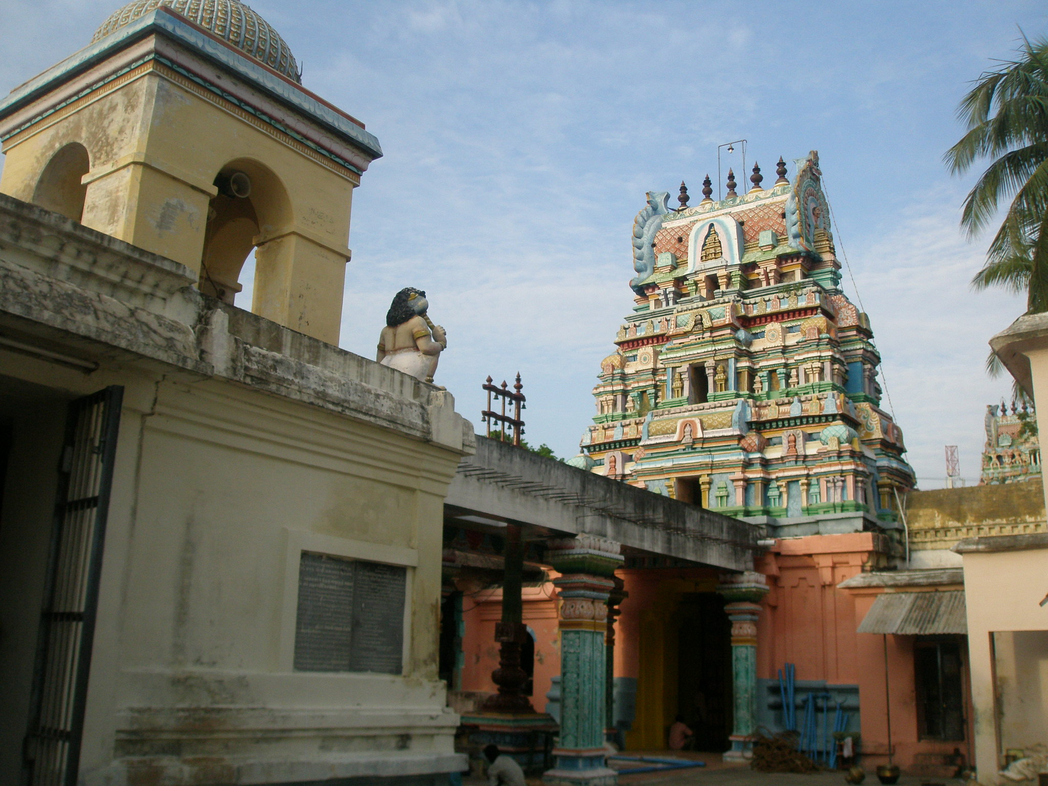 கோவில் ராஜகோபுரம்